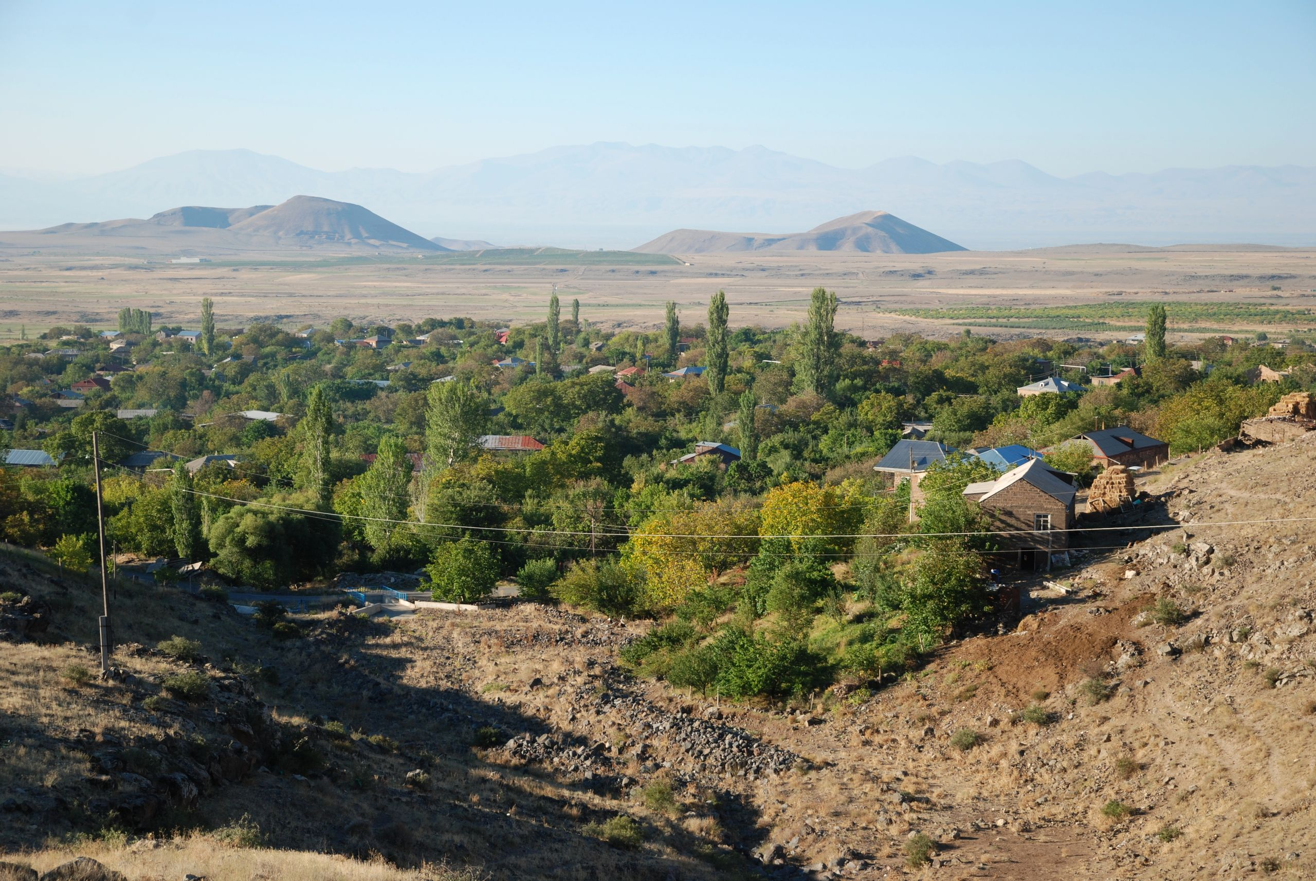 Kosh, village